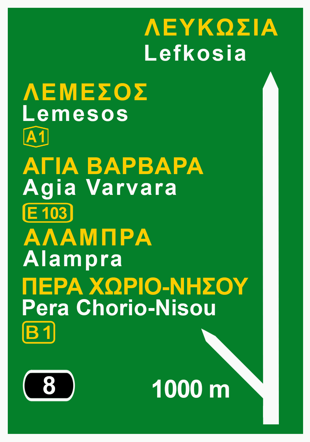 Direction sign on a motorway in Cyprus 1